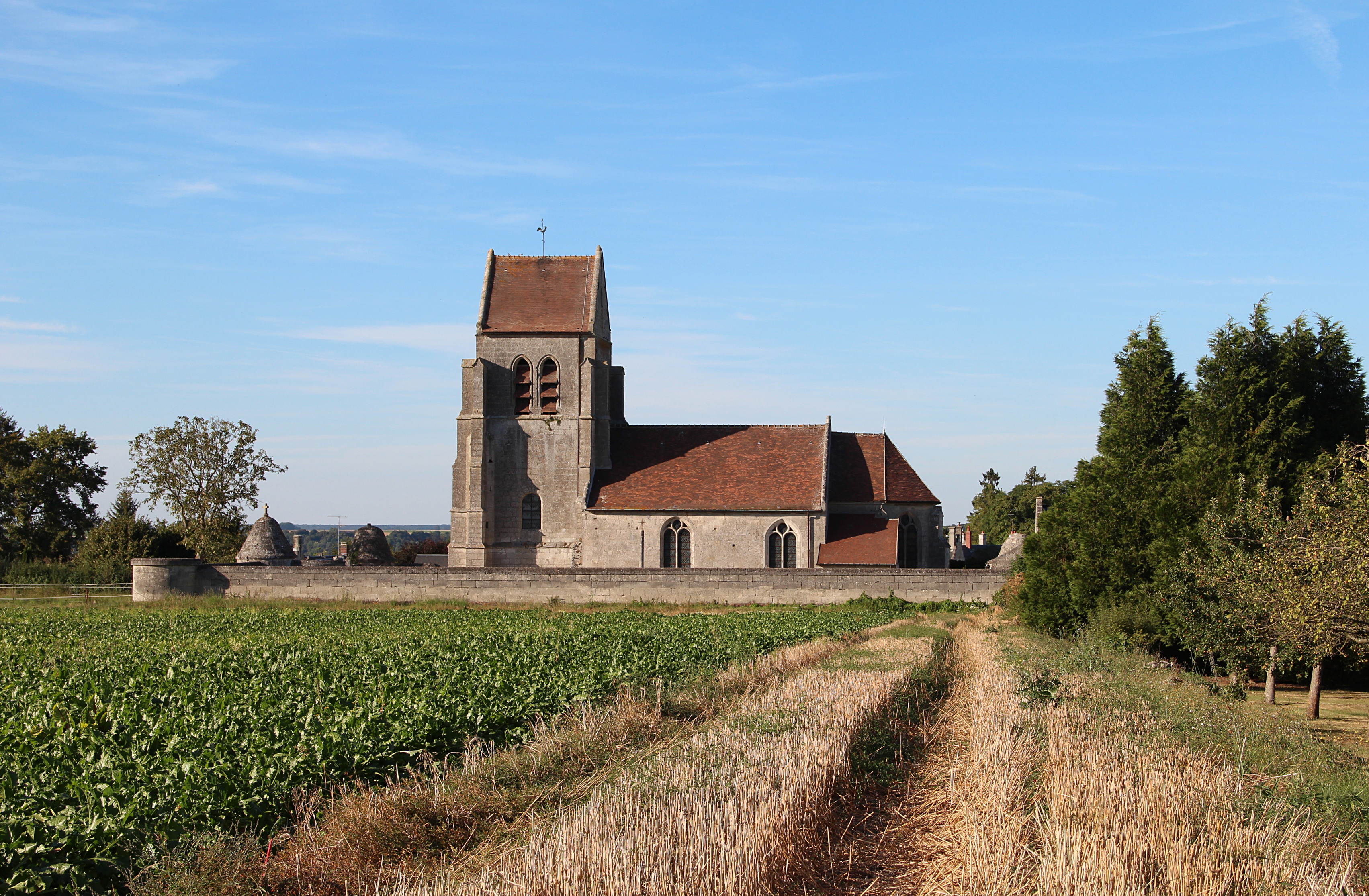 The Church of Notre-Dame (Our Lady) and fortified cemetery (XVIth century) to Croutoy ( Oise), France.